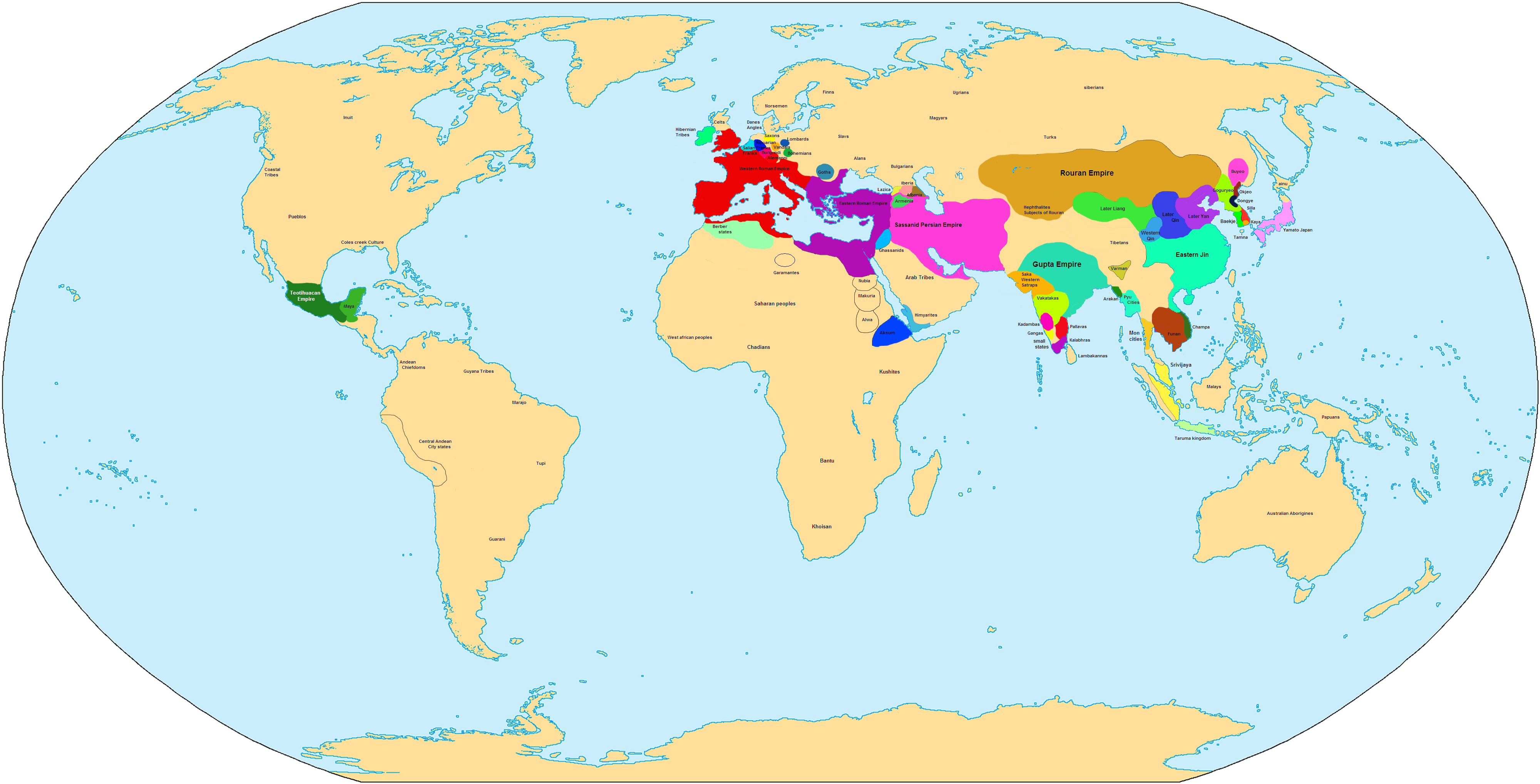 Map showing the world in 400 CE.